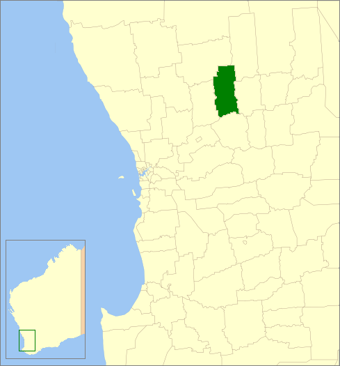 Description=Location of the Local Government Area in Western Australia